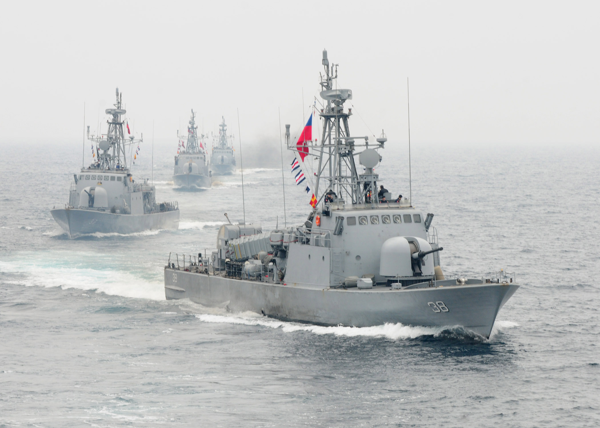 PACIFIC OCEAN (June 19, 2010) The Chilean navy fast attack crafts Teniente Serrano (LM 38), Teniente Orella (LM 37) and Teniente Uribe (LM 39), and patrol craft Guadiamarina Riquelme (LM 36) move into formation with USS Klakring (FFG 42) off the coast of Iquique, Chile. Klakring is on a six-month deployment to Latin America and the Caribbean as part of Southern Seas 2010, a U.S. Southern Command-directed operation that provides U.S. and international forces the opportunity to operate in a multi-national environment.